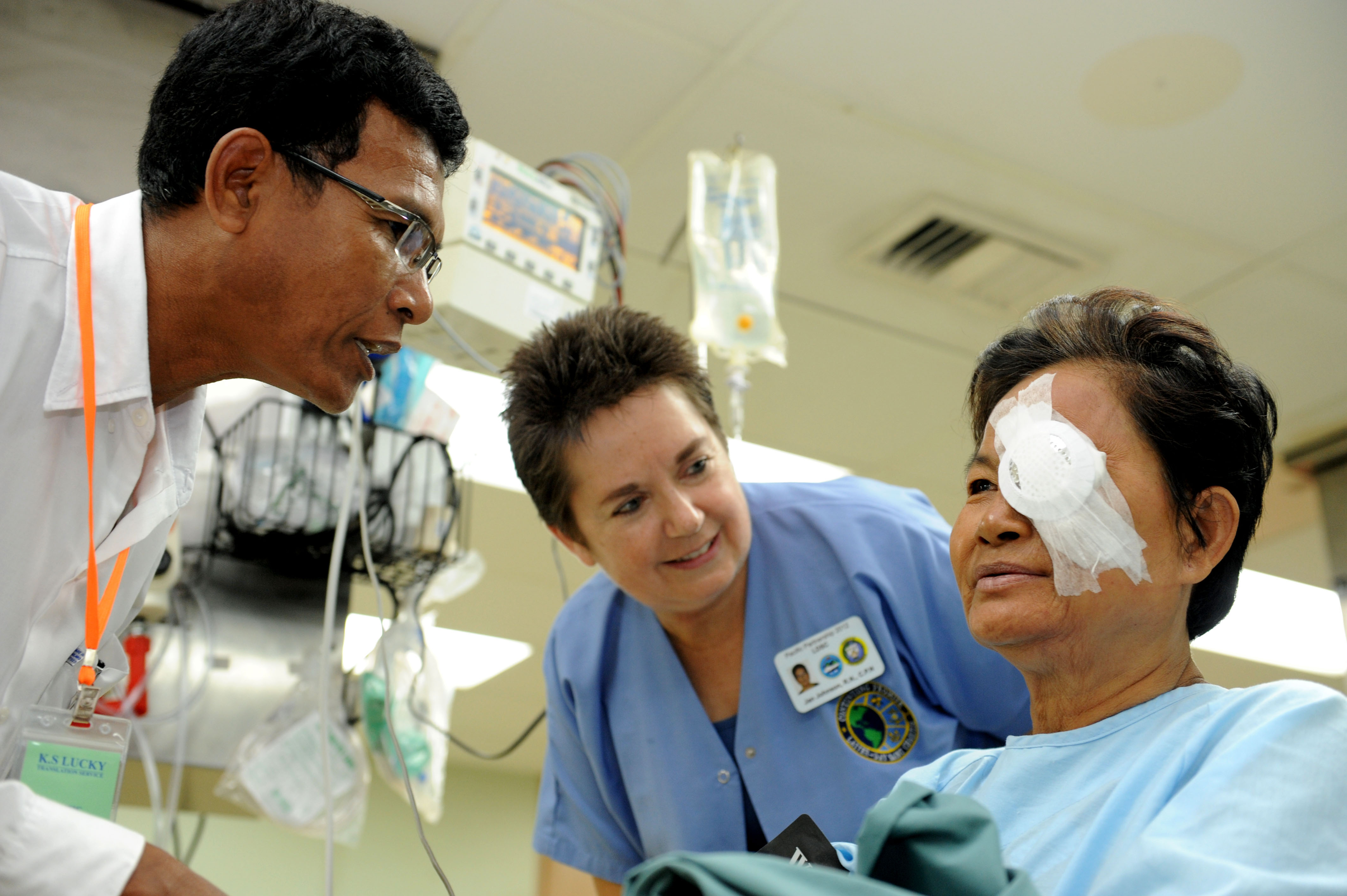 Latter-day Saints Charities volunteer nurse Jan Johnson, center, listens as a Cambodian translator speaks with a patient after cataract surgery aboard the hospital ship USNS Mercy (T-AH 19) Aug. 5, 2012, during Pacific Partnership 2012 in Sihanoukville, Cambodia. Pacific Partnership is an annual deployment of forces designed to strengthen maritime and humanitarian partnerships during disaster relief operations, while providing humanitarian, medical, dental and engineering assistance to nations of the Pacific.